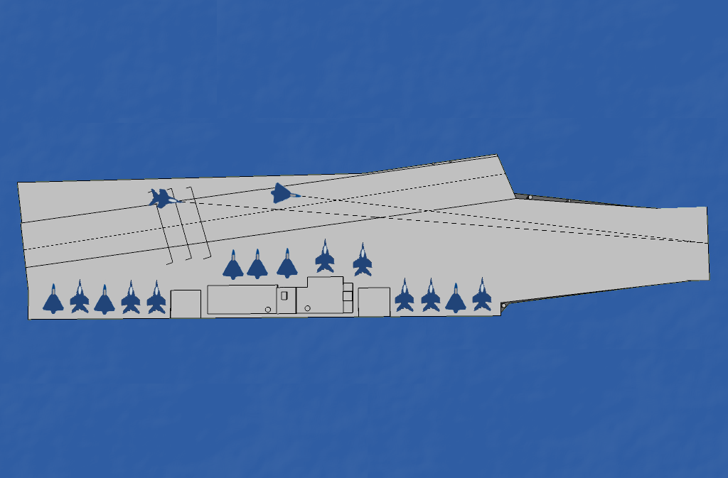 A CGI of the upcoming aircraft carrier, of the Indian Navy